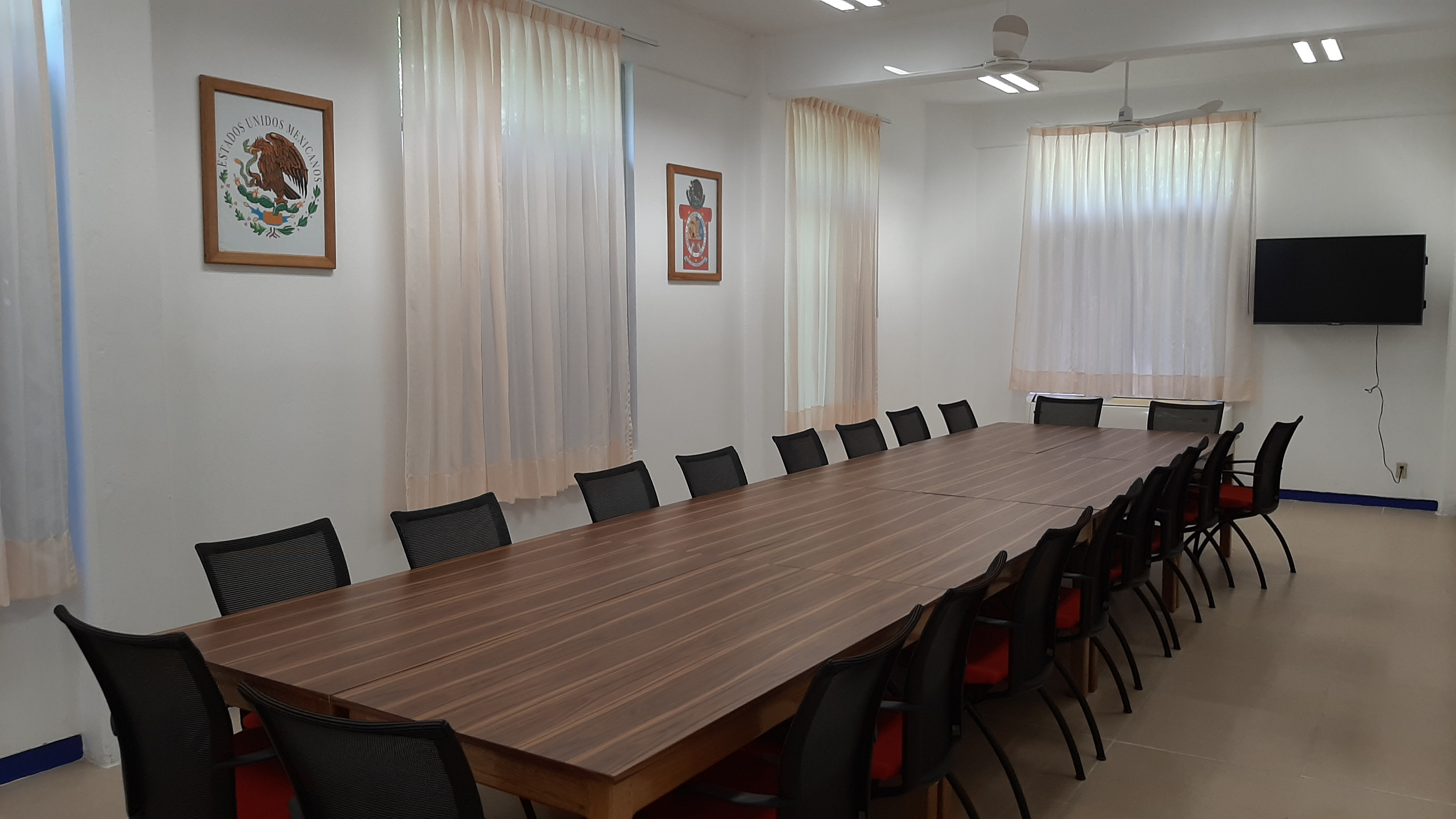 Meeting Room. Institute of International Relations Isidro Fabela